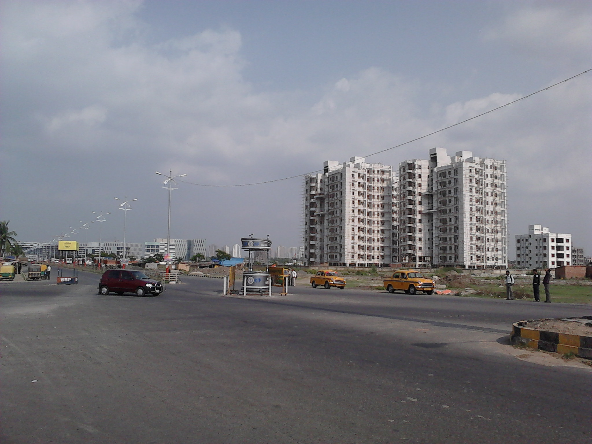 The Narkel Bagan crossing (or Bn:More) at Rajarhat..